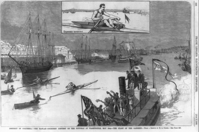 Wood engraving after sketch of the start of the Hanlan-Courtney rowing contest on the Potomac at Washington